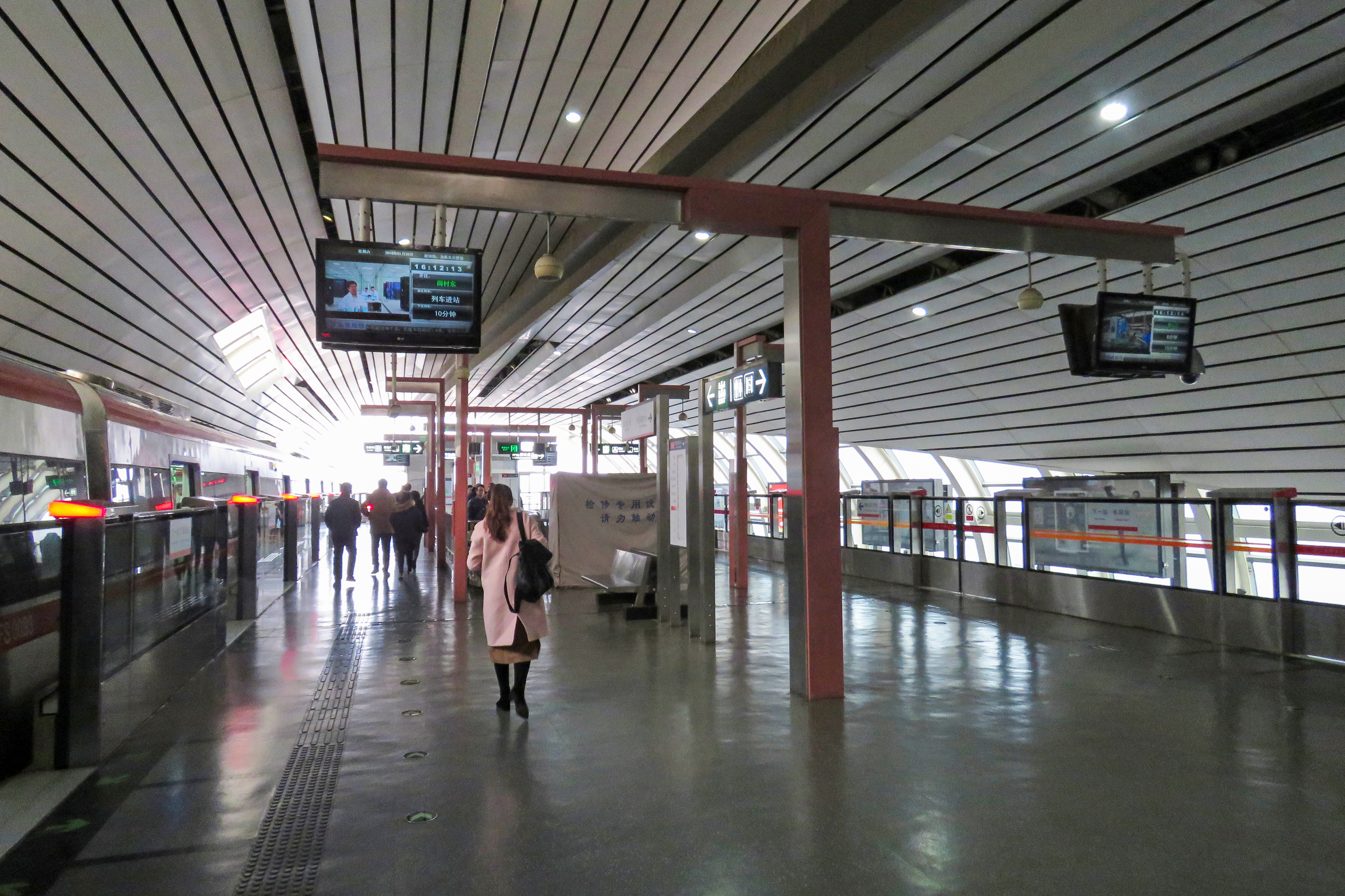 Libafang has become a minor hub years after the establishment of Capital Outlets.